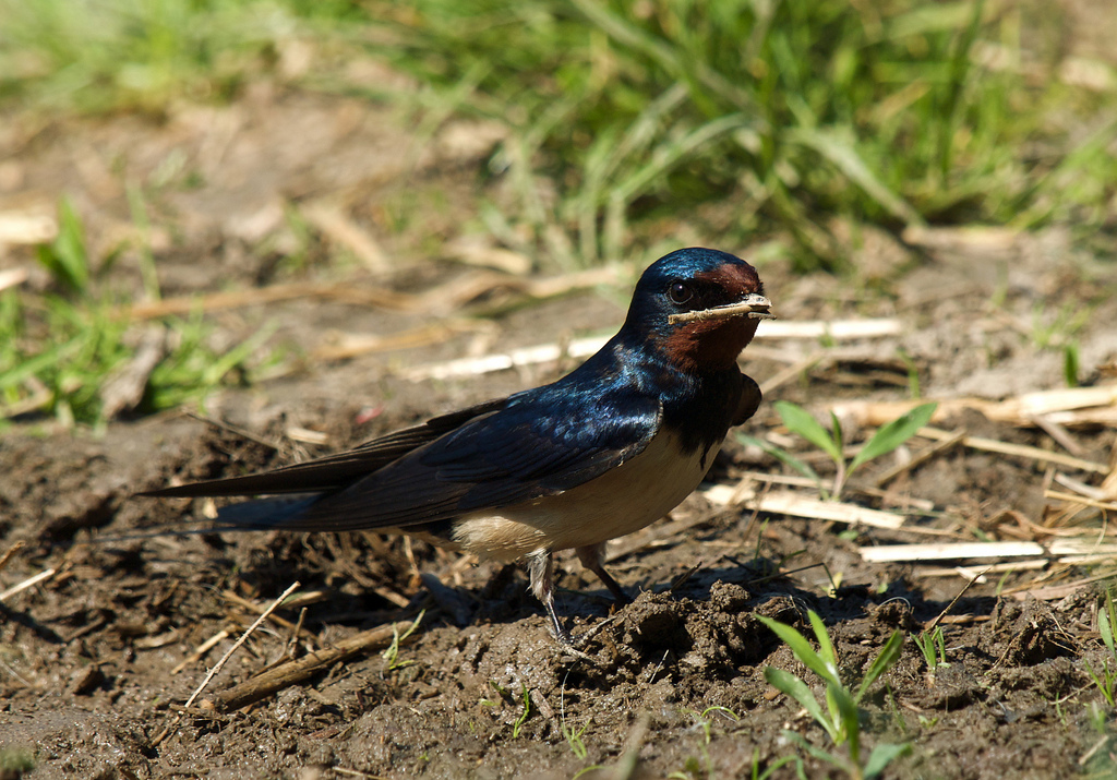 A Barn Swallow collecting material for nest building in Saxony, Germany.